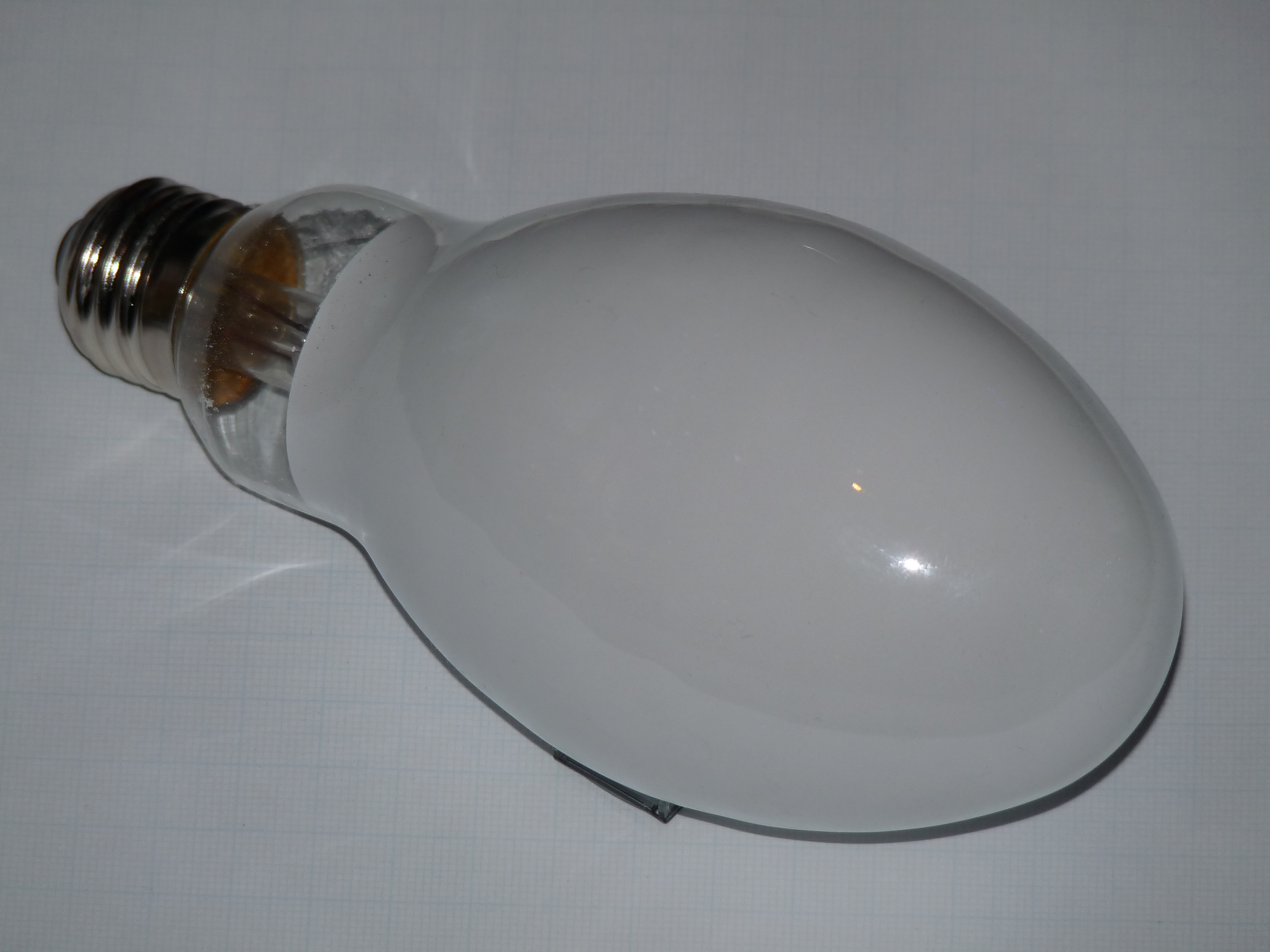 160W self-ballasted mercury-vapor light bulb